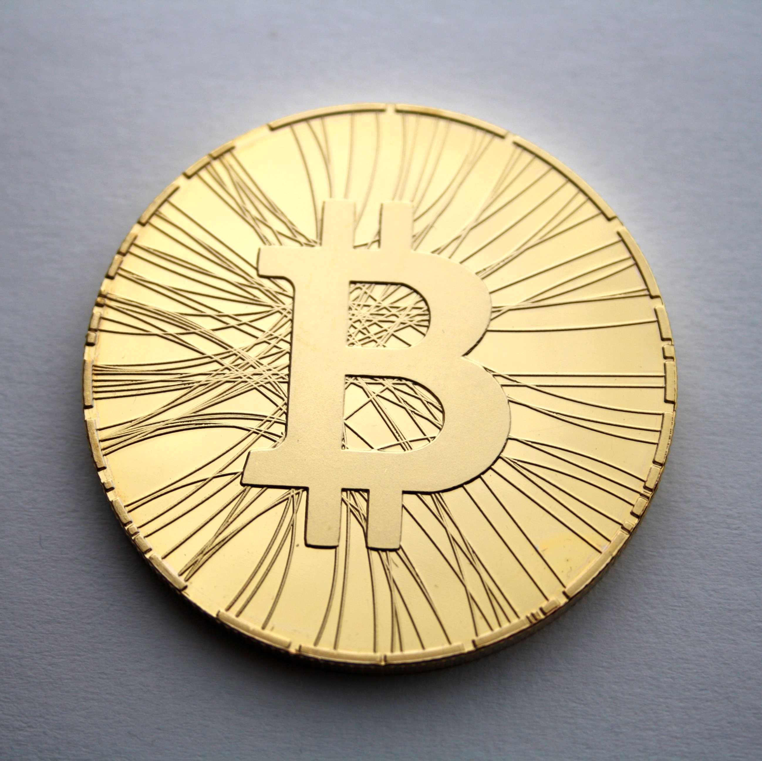 Physical bitcoin statistic coin by ANTANA